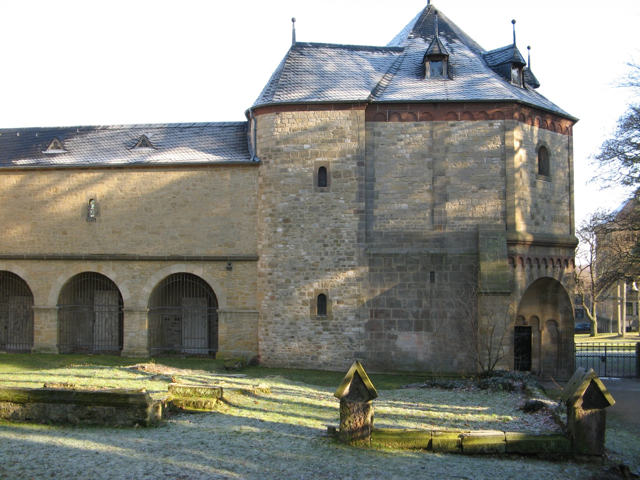 Back side of the ancient emperor castle in Goslar, Germany.